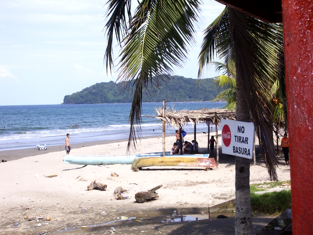 Playas de Tela